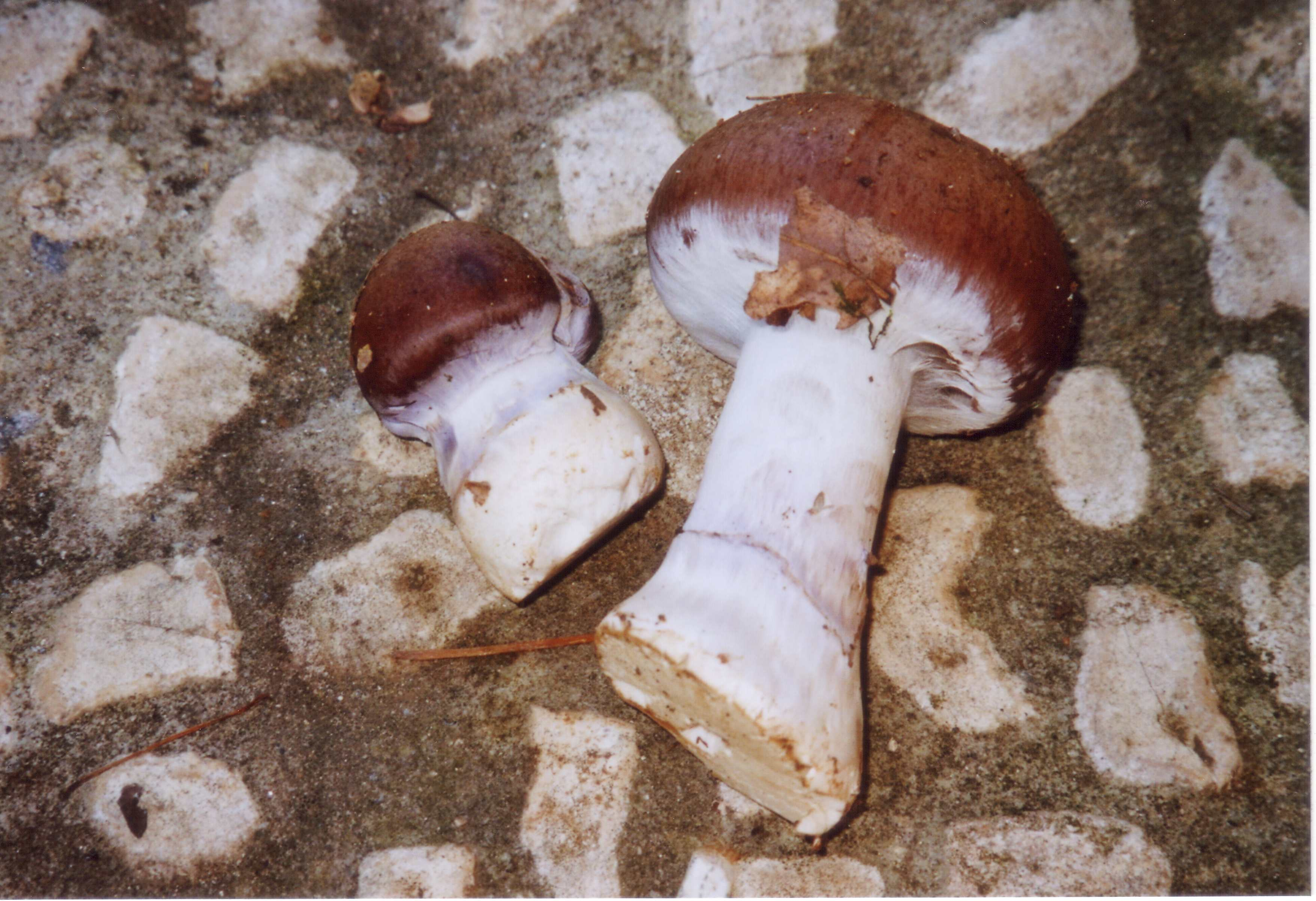 Cortinarius praestans in Javerlhac-et-la-Chapelle-Saint-Robert, Goliath Webcap in Javerlhac-et-la-Chapelle-Saint-Robert, northern Dordogne, France